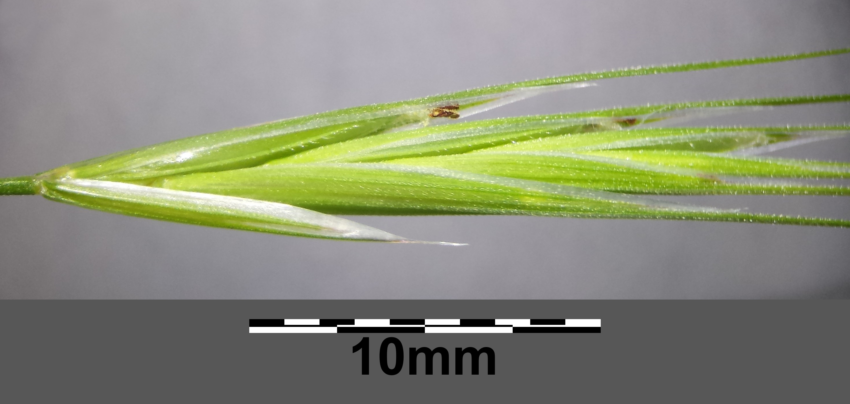 Spikelet Taxonym: Bromus sterilis ss Fischer et al. EfÖLS 2008 ISBN 978-3-85474-187-9 Location: Donaupark, Vienna-Donaustadt - ca. 160 m a.s.l. Habitat: ruderal, dry meadows